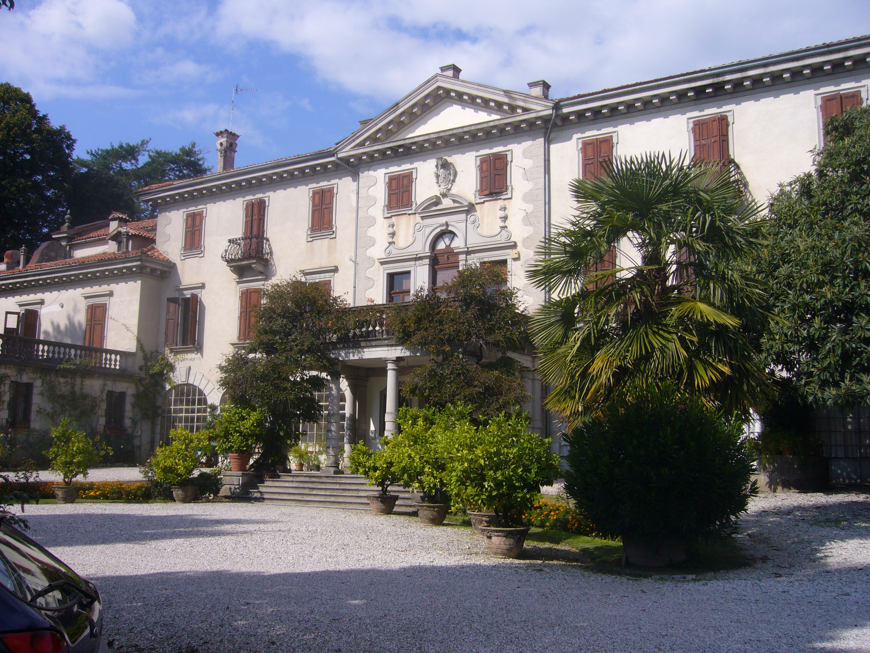 Brazzà manor, Italy